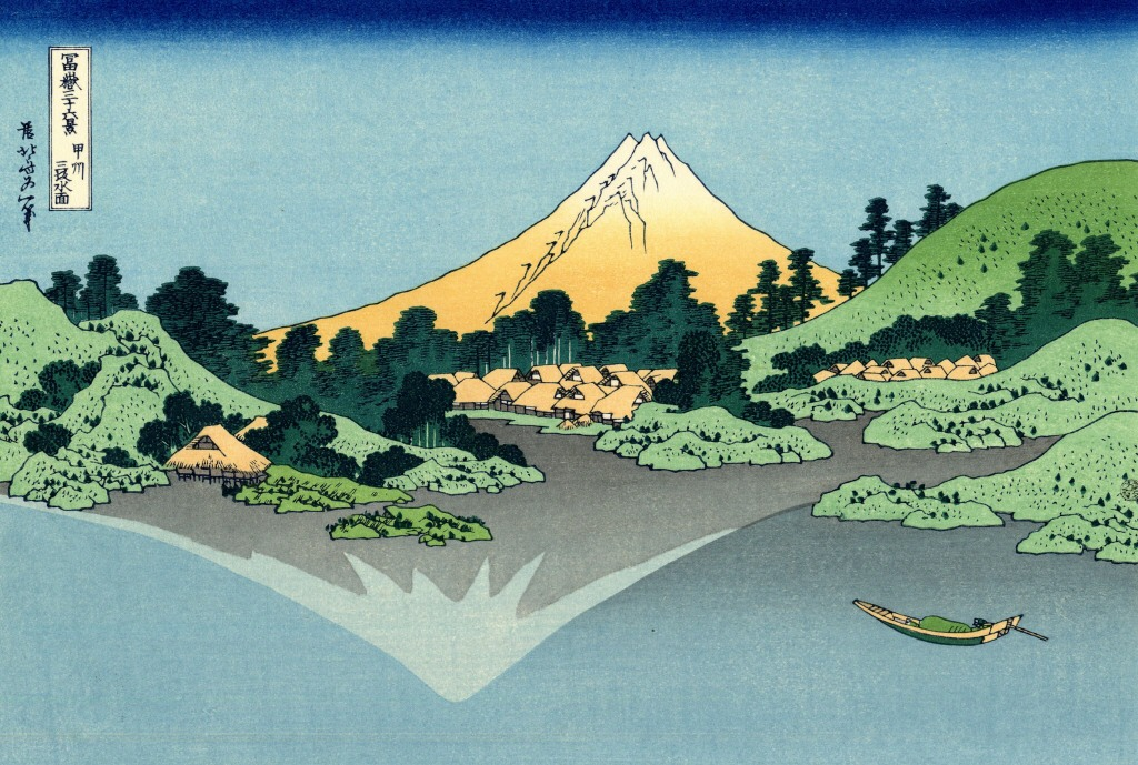 Part of the series Thirty-six Views of Mount Fuji, no. 42, 6th additional woodcut.